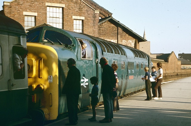 Doncaster station